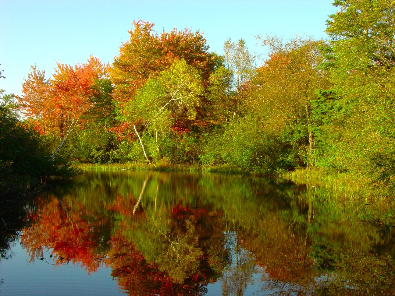 Lemon Stream September